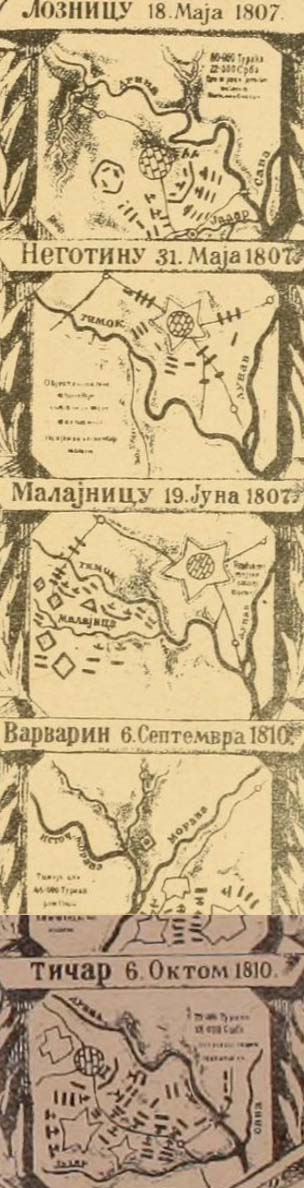 Battle maps of Loznica (18 May 1807), Negotin (31 May 1807), Malajnica (19 June 1807), Varvarin (6 September 1810) and Tičar (6 October 1810).